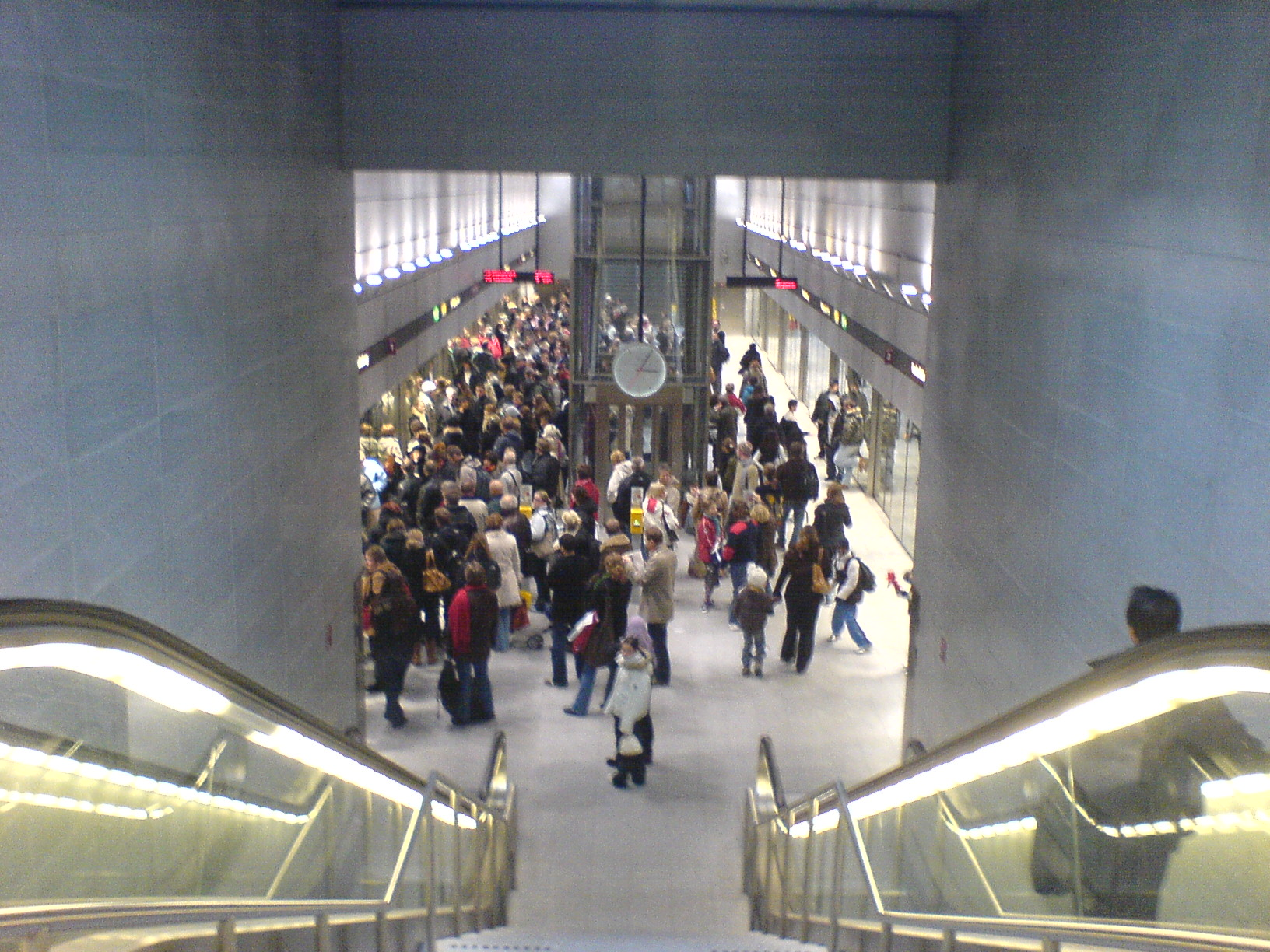 Frederiksberg metro station, Copenhagen